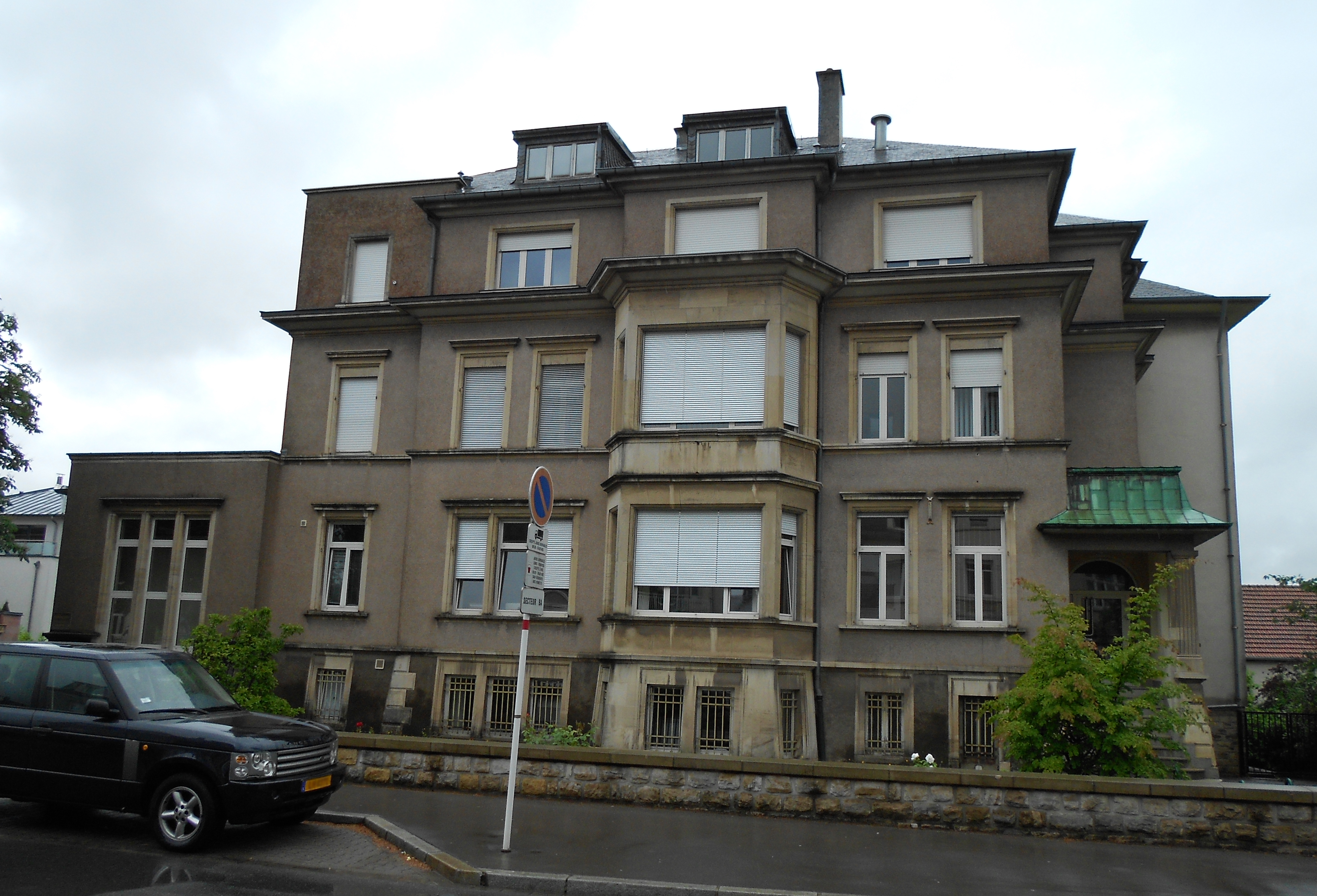 State laboratory of veterinary medicine (on the left) and cadastral administration (on the right) in Belair, in the city of Luxembourg.